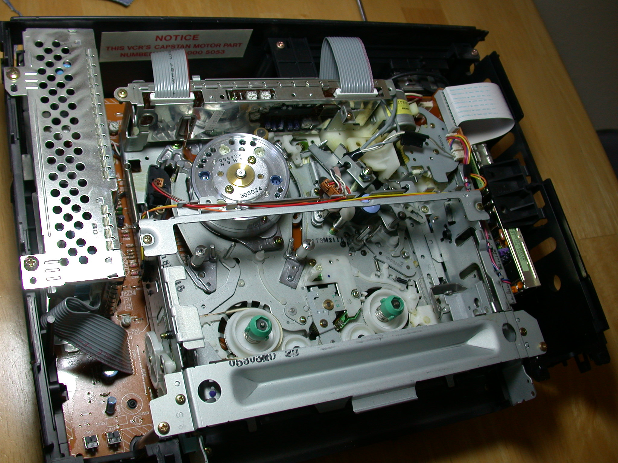 The insides of a video cassette recorder or VCR. (We took it apart to get the tape out and successfully reattached a button that had popped off the front bezel.)